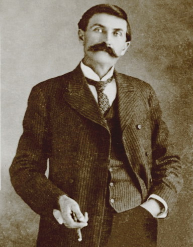 Portrait of sheriff Pat Garrett.